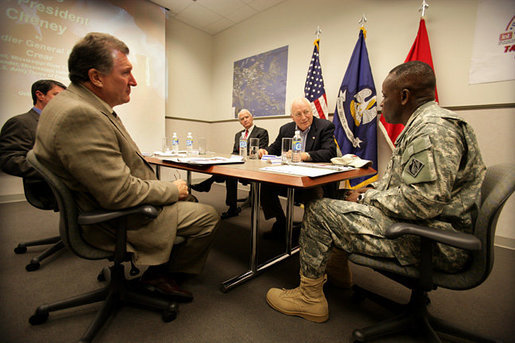 Vice President's Remarks to the Travel Pool Vice President Dick Cheney speaks with Brigadier General Robert Crear, Commander of the Mississippi Valley Division of the U.S. Army Corps of Engineers, during a briefing on Hurricane Katrina recovery held at the New Orleans Port Authority in New Orleans, La., Thursday, October 12, 2006. The U.S. Army Corps of Engineers has been working to address flood problems along the Mississippi River since the 1800's and is responsible for rebuilding the 169 miles of levees in the southeast Louisiana area that sustained damage as a result of Katrina. White House photo by David Bohrer